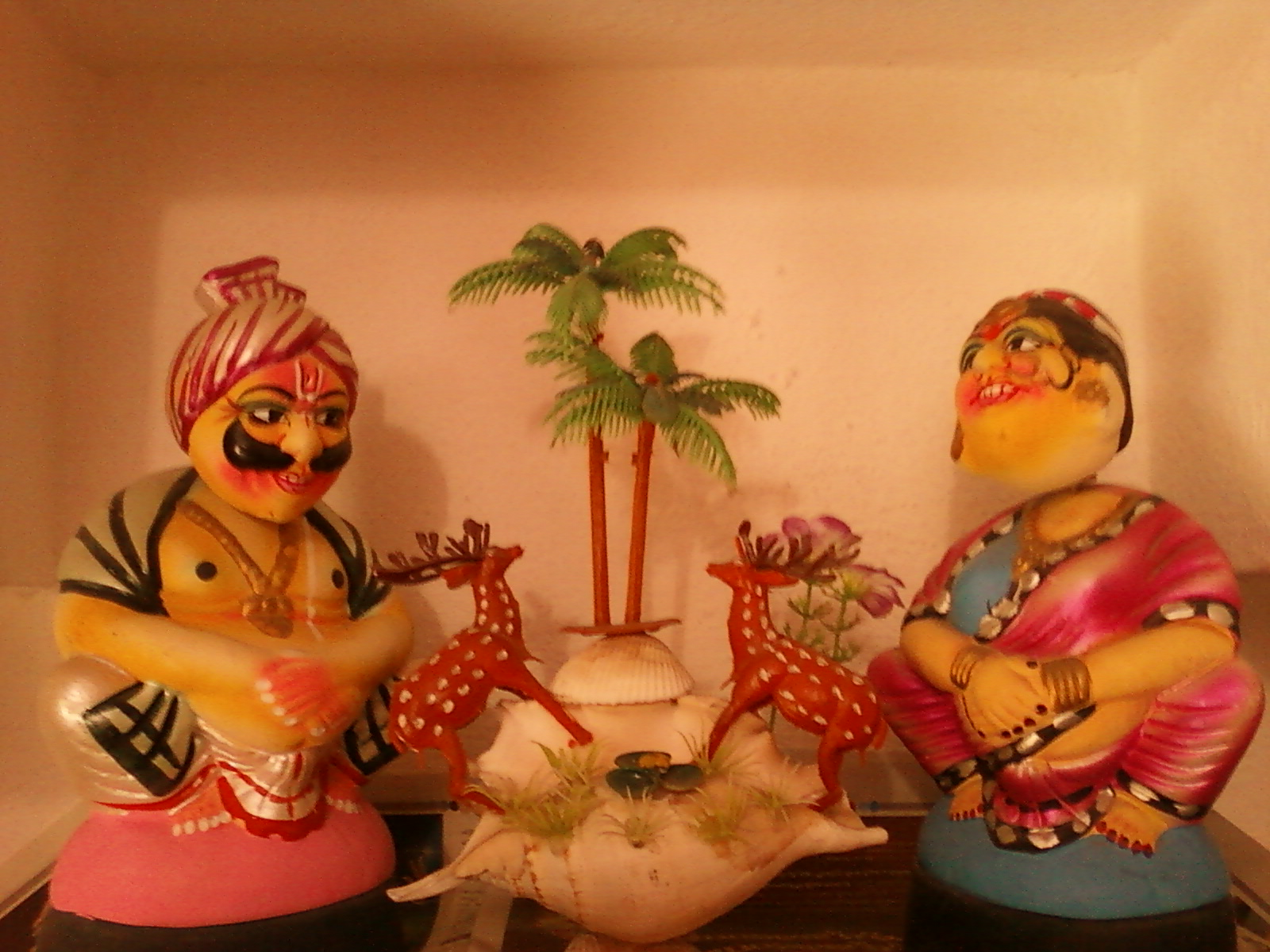 Pair of famous Kondapalli toys at a house in Vijayawada